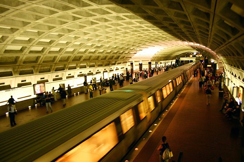 Summary Kelvin Kay user:Kkmd